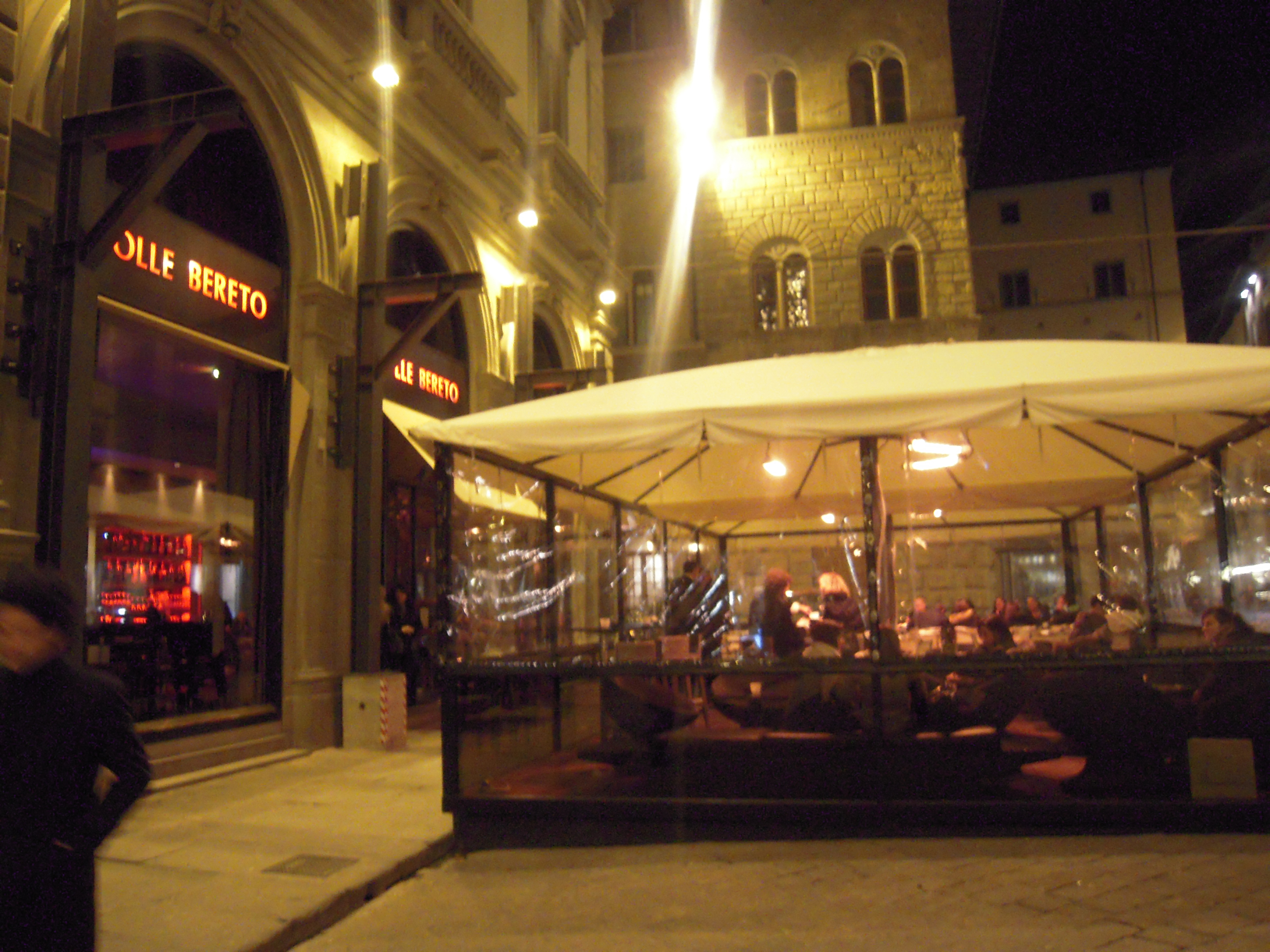 Piazza Strozzi